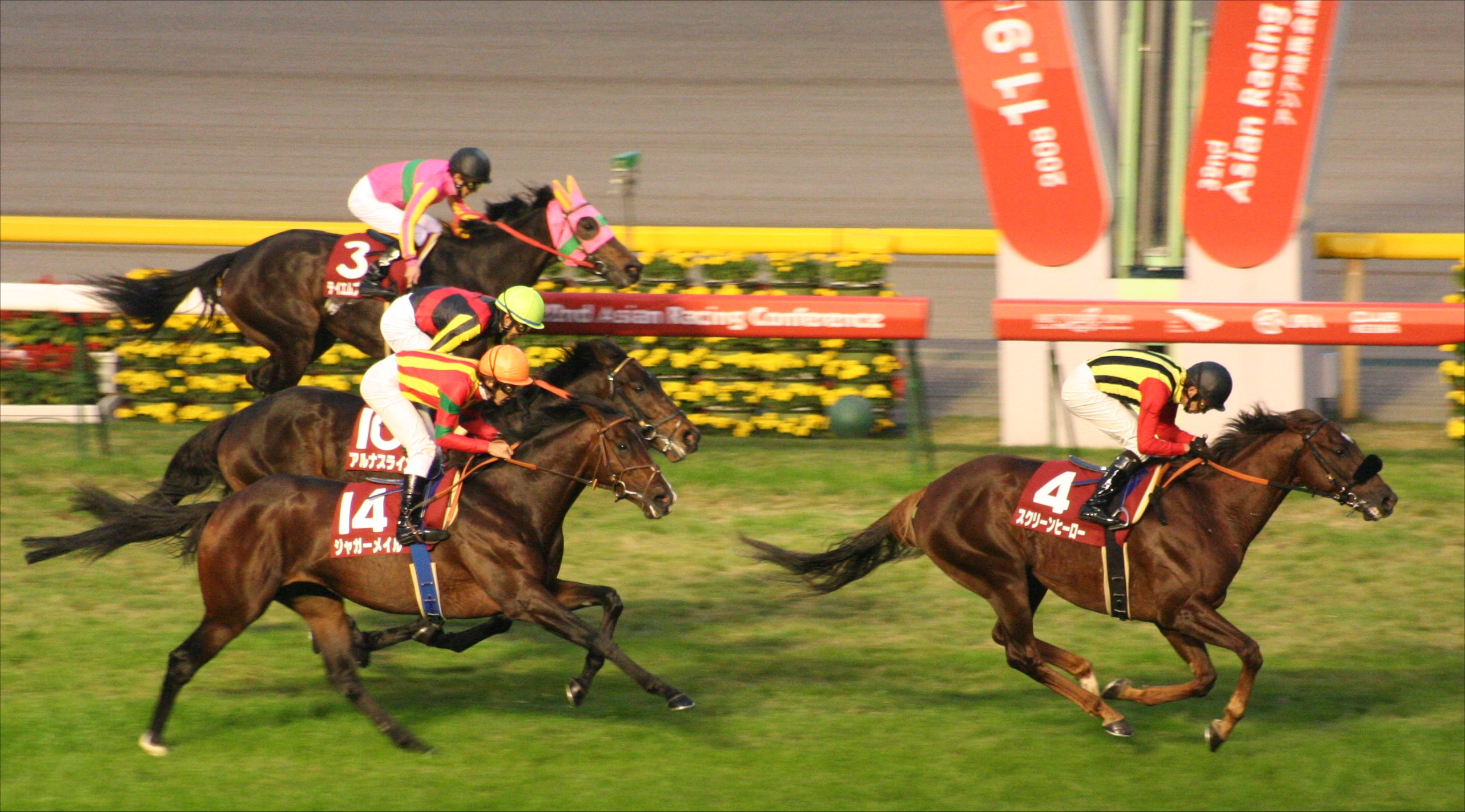 The 46th Copa Republica Argentina(Tokyo Racecourse)